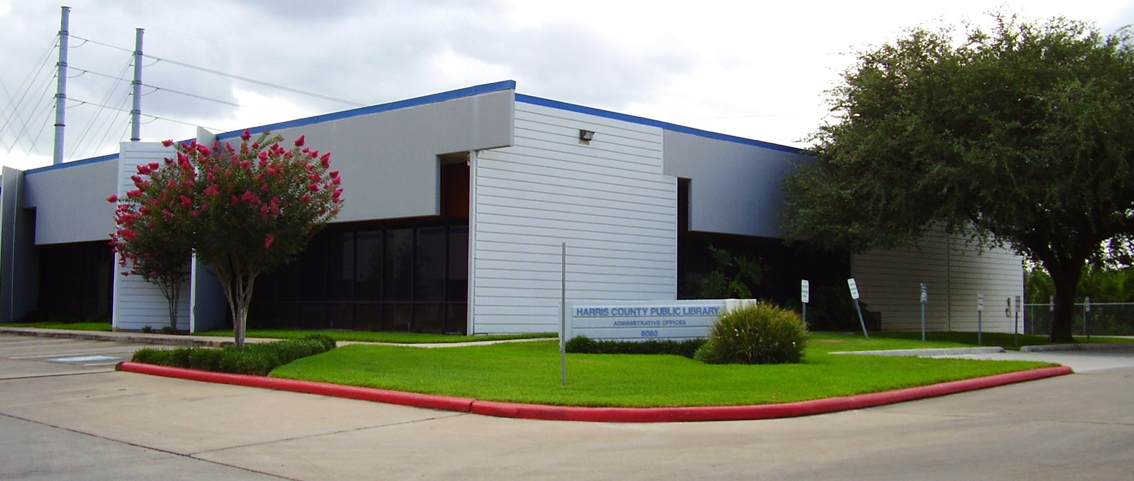 Former Harris County Public Library Headquarters - 8080 El Rio Street Houston, TX 77054